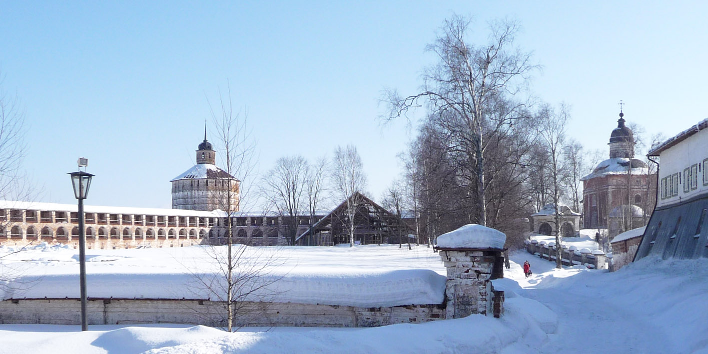 View of the Church of the Deposition of the Robe after the restoration of 2010 being under the triangular temporary tent. Kirillo-Belozersky Monastery. Vologodskaya oblast. Russia